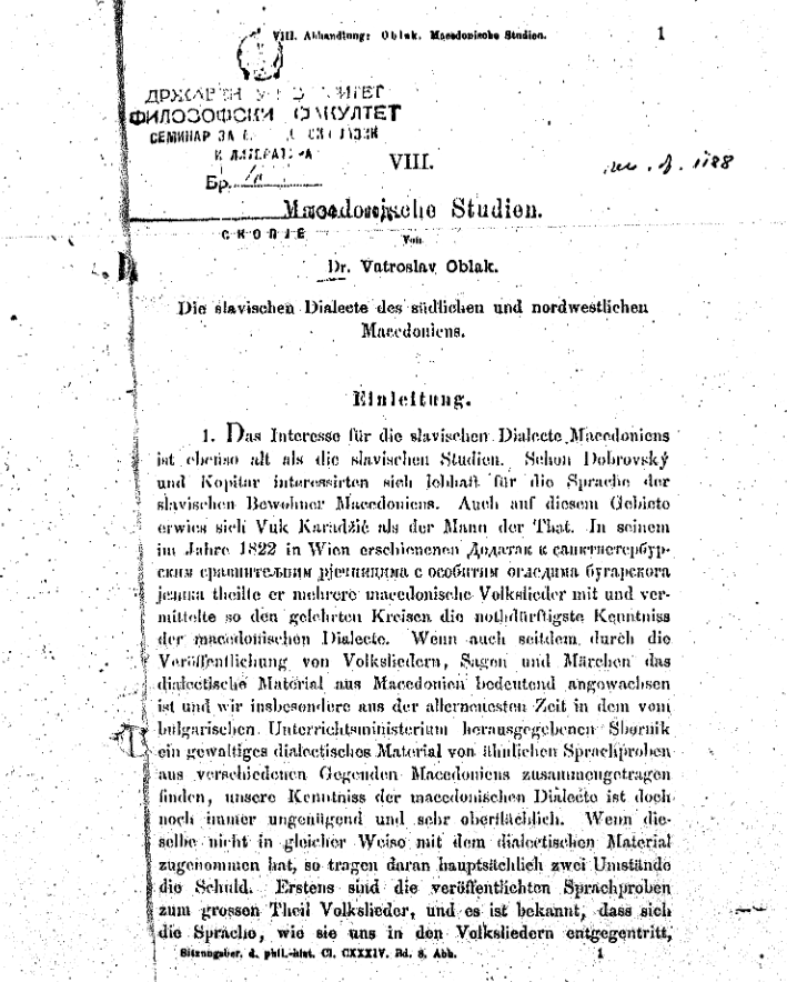 Macedonische Studien